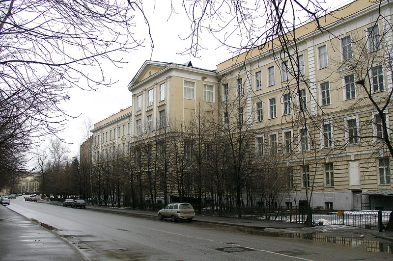 Clinic on Devichye Pole, Moscow, Russia